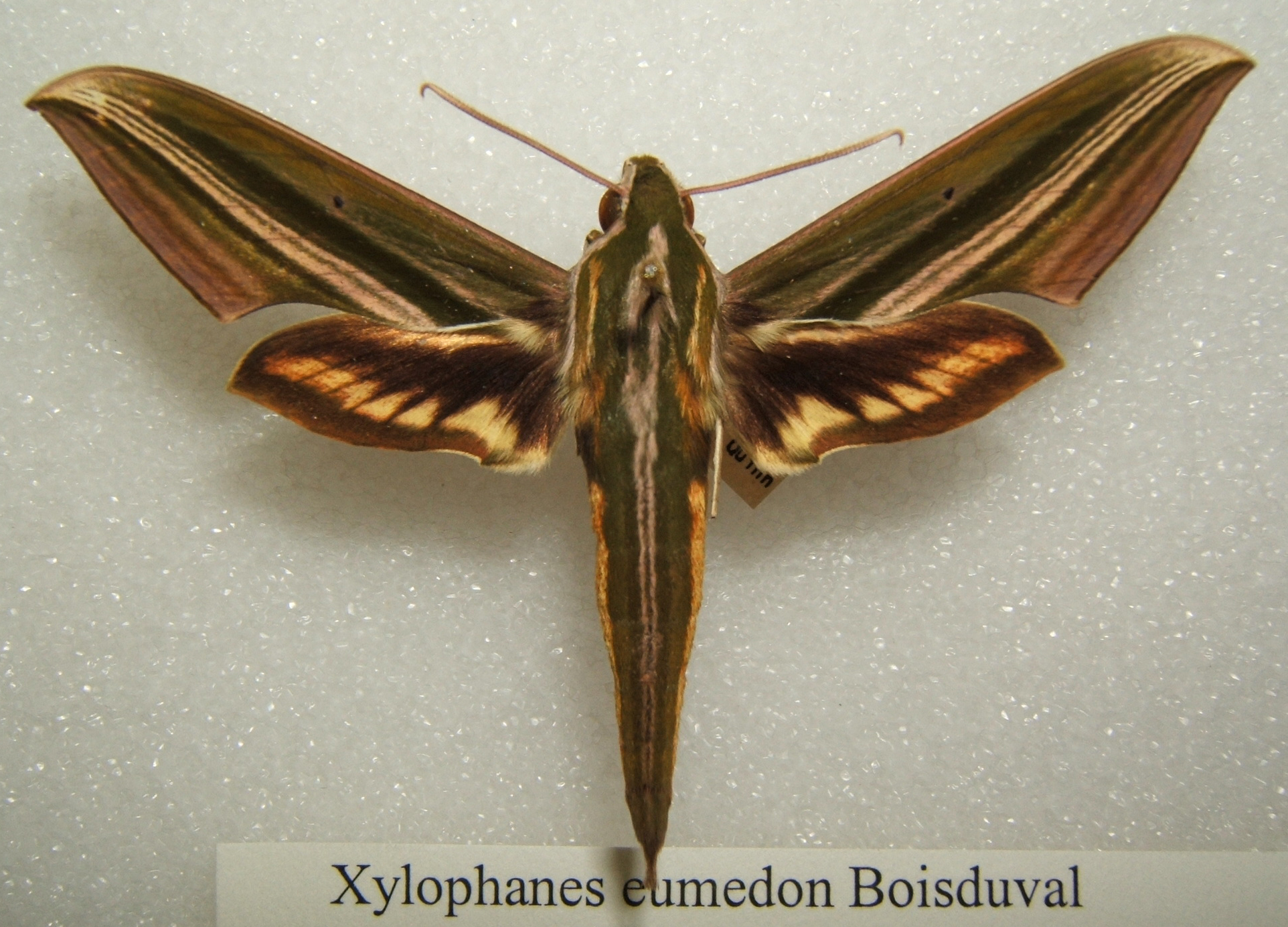 Xylophanes eumedon adult taken by Shawn Hanrahan at the Texas A&M University Insect Collection in College Station, Texas.